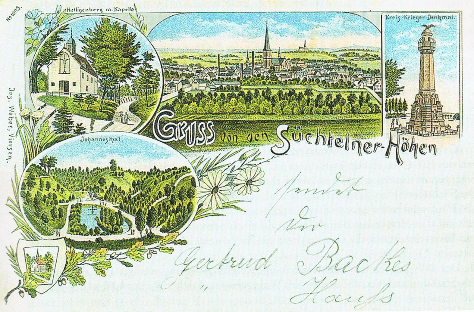 postcard of Süchtelner Höhen (Viersen, Germany) from 1897